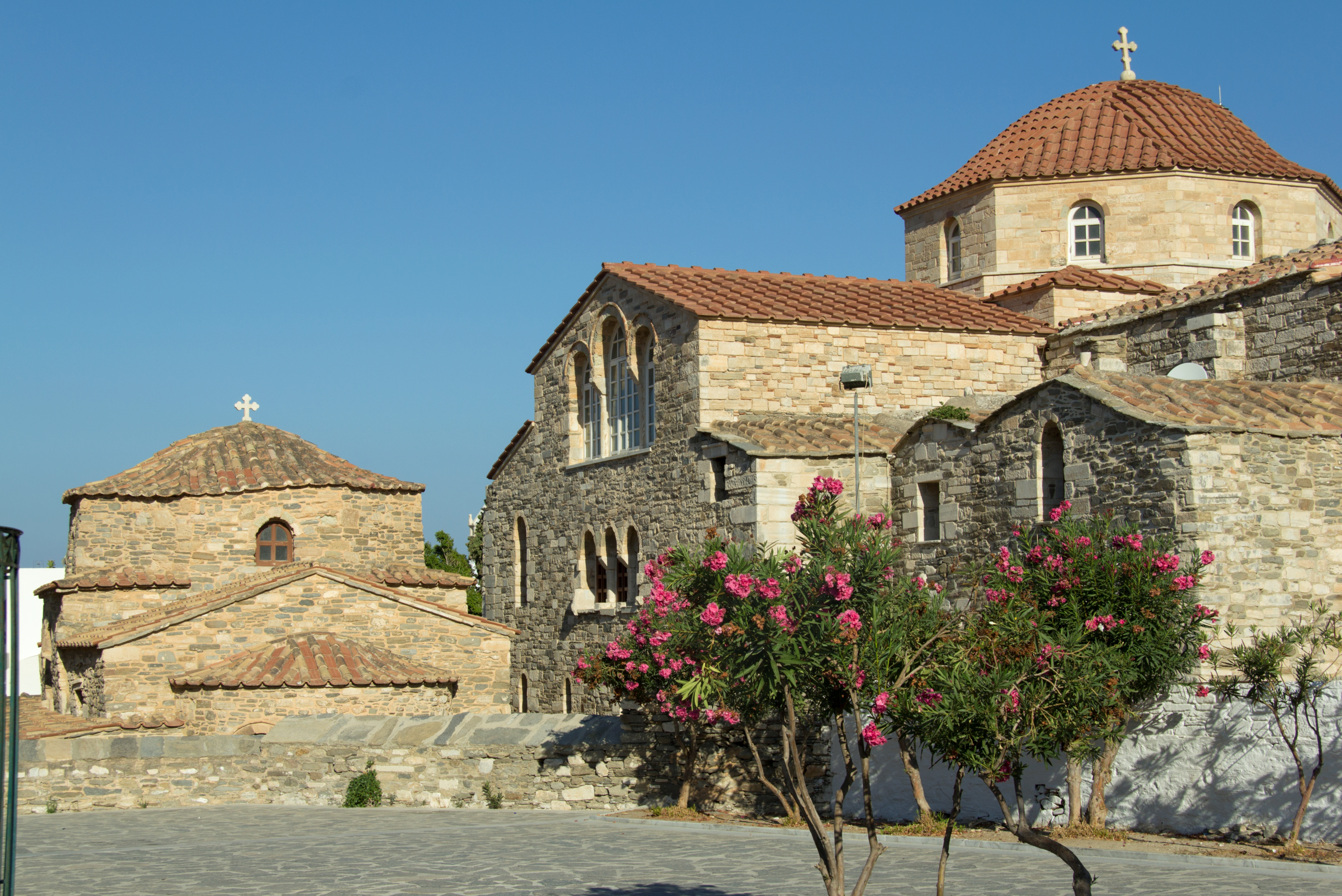 Panagia Ekatontapyliani in Parikia on Paros.